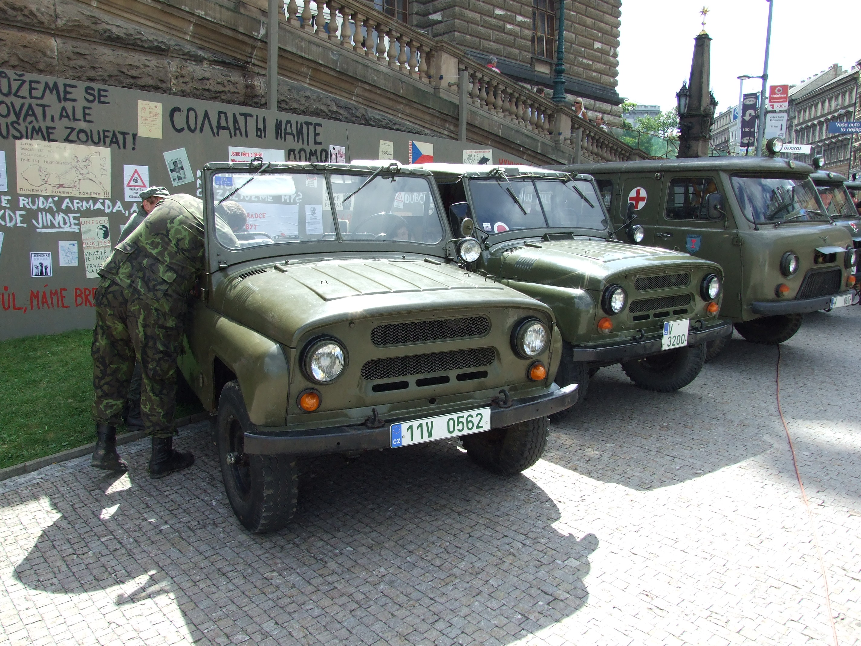 Exhibiton for 40th annivesary of Occupation of Czechoslovakia in Prague. T-54 soviet tank can be seen, cars of 1960's and military trucks were also on displayhelp